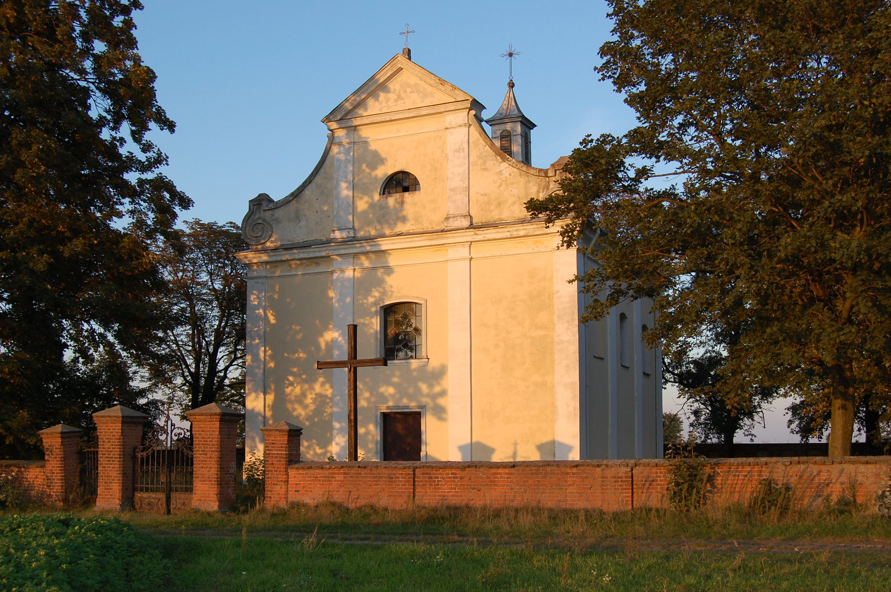 Saint Stanisław church in Żelechów, Poland